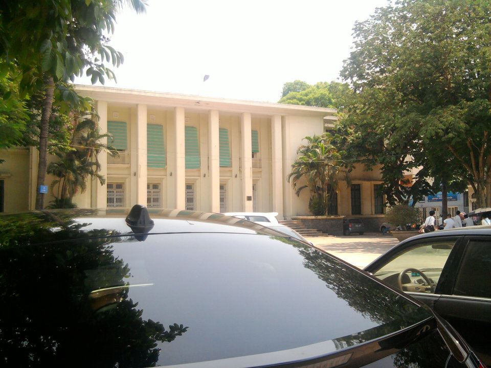 The library of Vietnam National University,Hanoi and HUS High School for Gifted Students